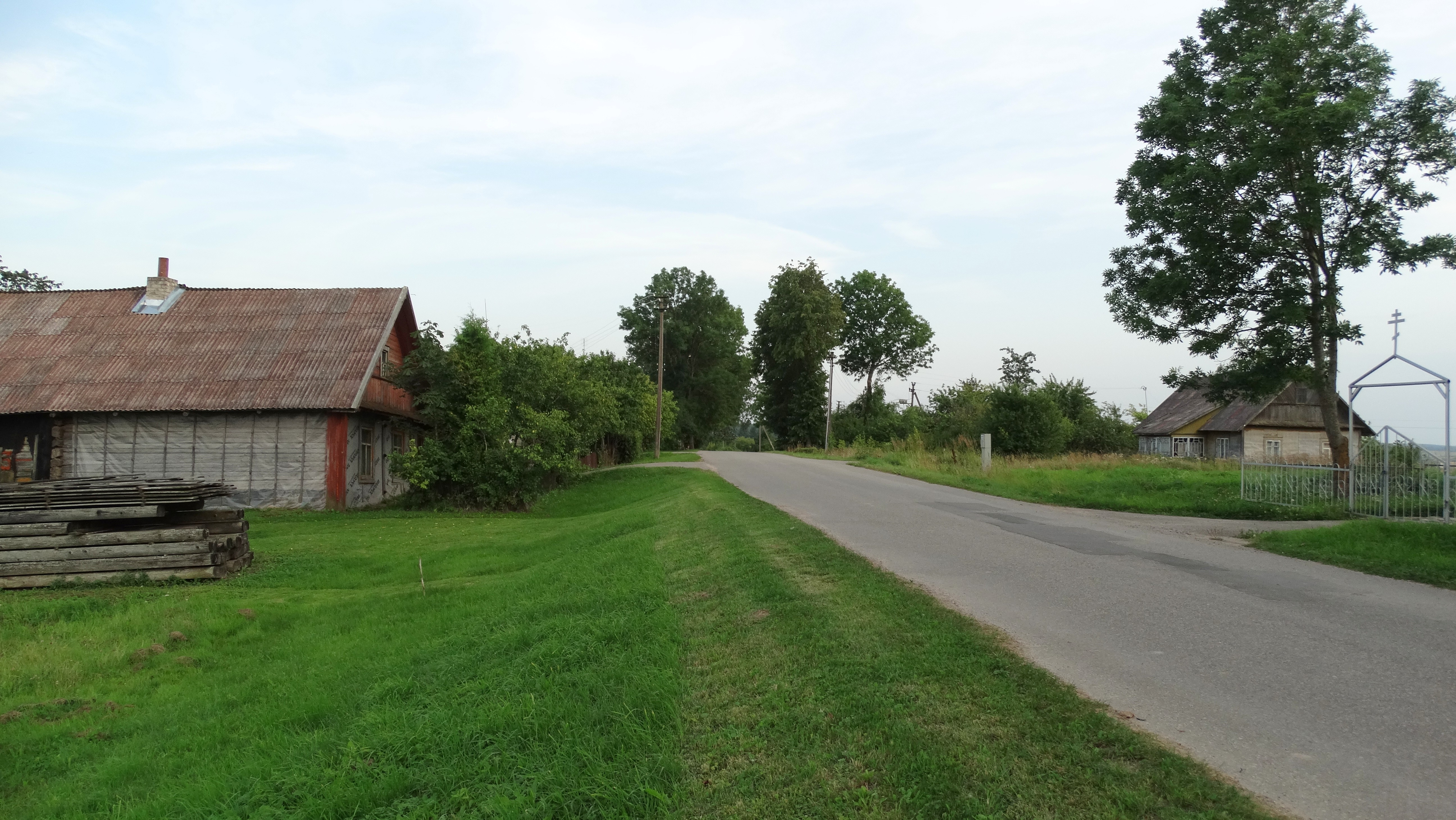 Jurgeliškė, Švenčionys District, Lithuania